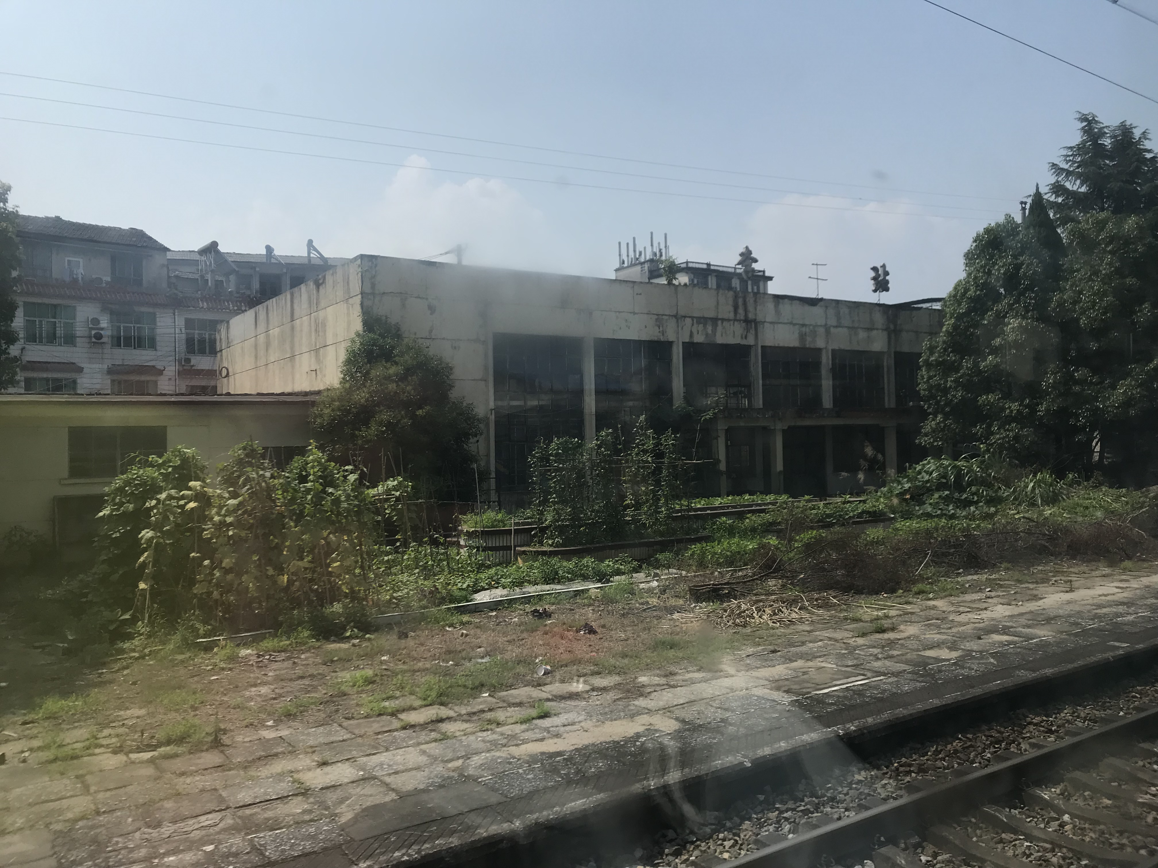 201906 Station Building of Zhaoliqiao Station